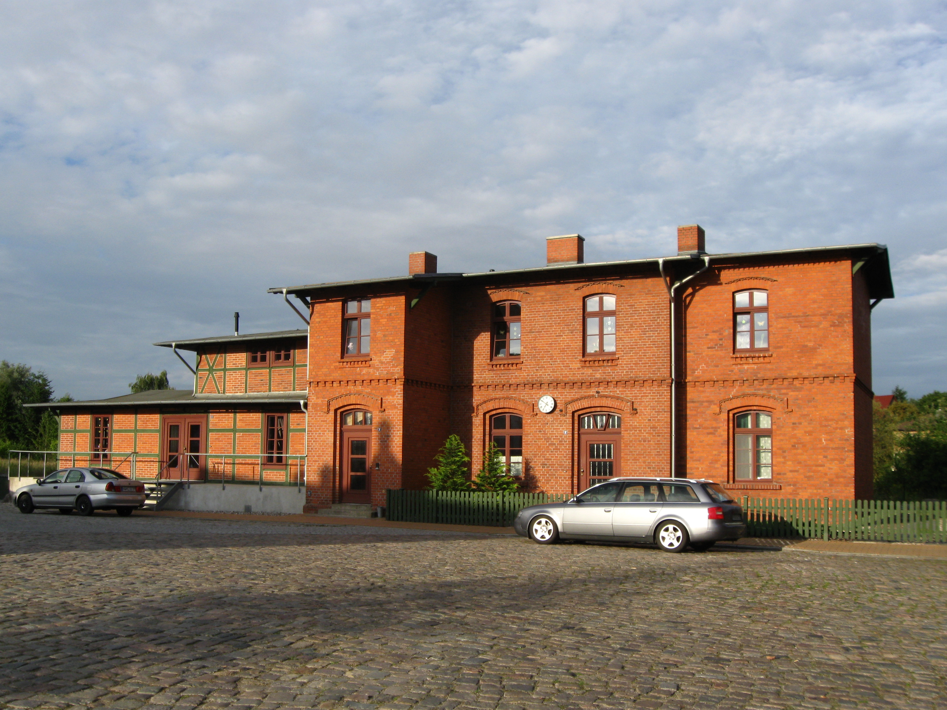 The railway station from Warin